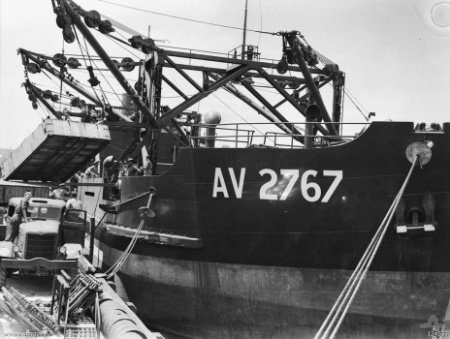 Australian War Memorial image 124533. Australian Army ship AV2767 Crusader at Sydney. Her cranes allowed her to efficiently load and unload cargo.